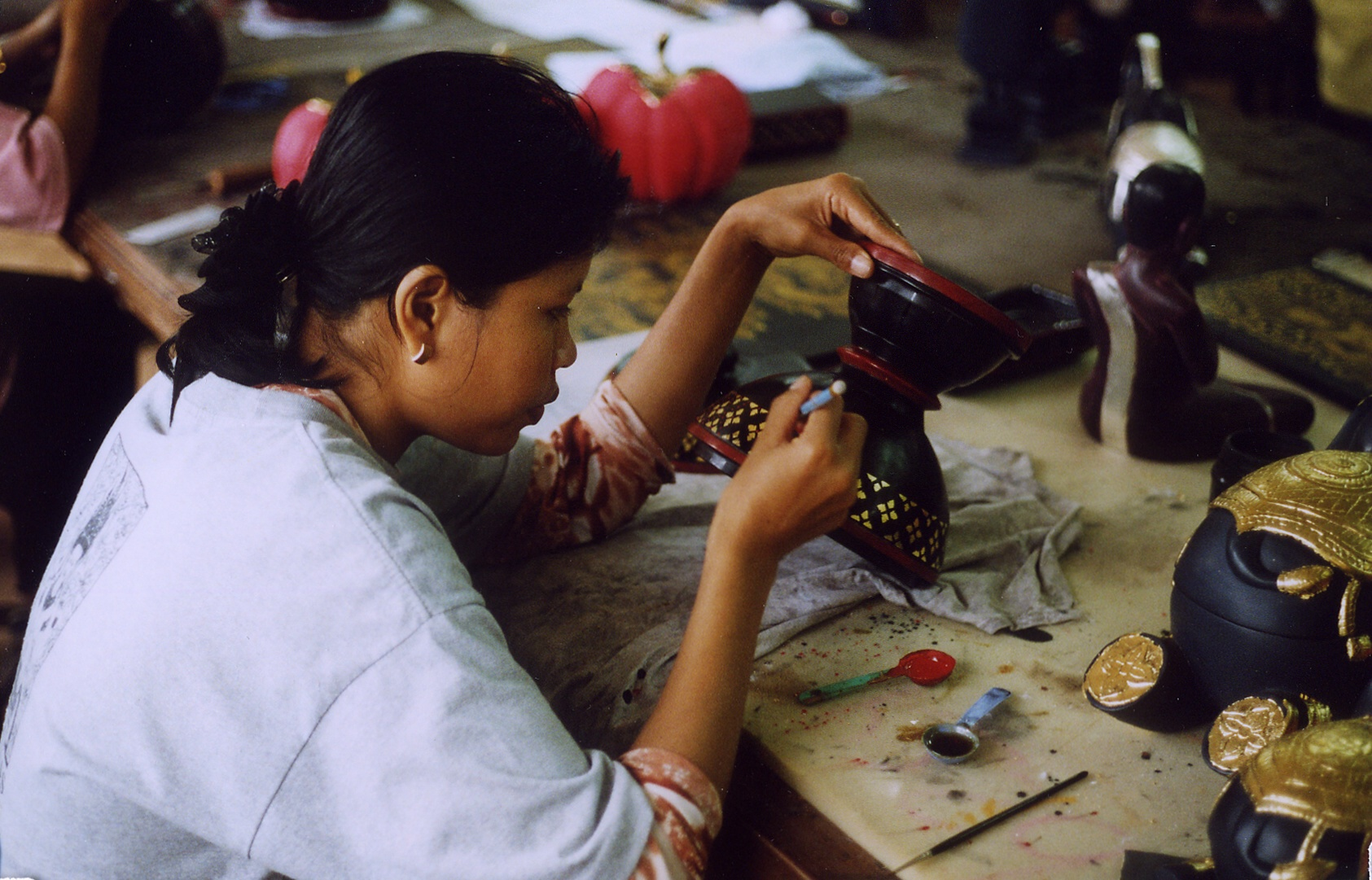 Artisans D'Angkor sponsors apprentices to learn traditional Khmer crafts. Here, a woman is working with a lacquered vase.